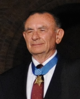 Medal of Honor recipient Robert E. Simanek attends the Evening Parade at Marine Barracks Washington D.C. on May 7, 2010.